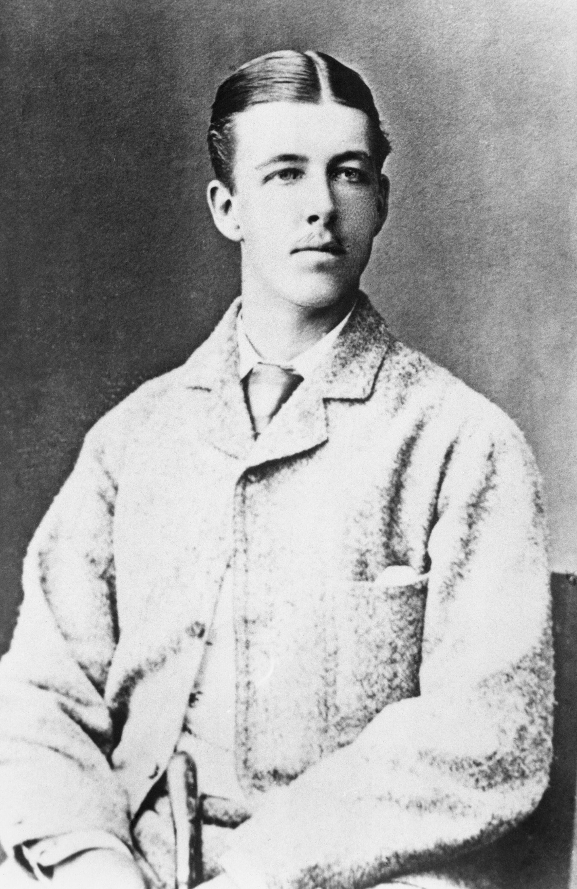 Victoria Cross Winners- Pre 1914. Portrait of Walter Richard Pollock Hamilton, awarded the Victoria Cross: Afghanistan, 2 April 1879.